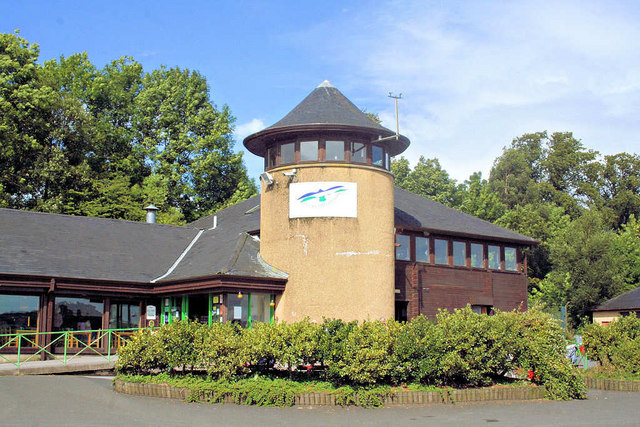 Visitors' Centre, Castle Semple Loch The attractive visitors centre at this popular watersports facility, Lochwinnoch.